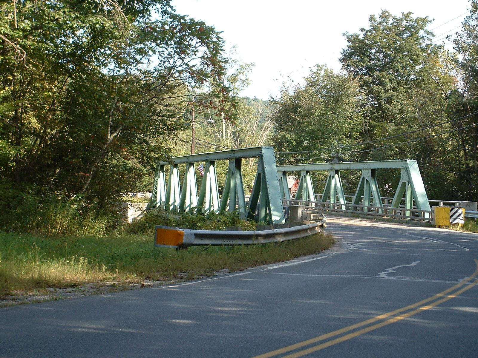 The Clam River Bridge in Sandisfield, Massachusetts Sandisfield Rd (Rte. 57) at Sears Rd, Sandisfield, MA